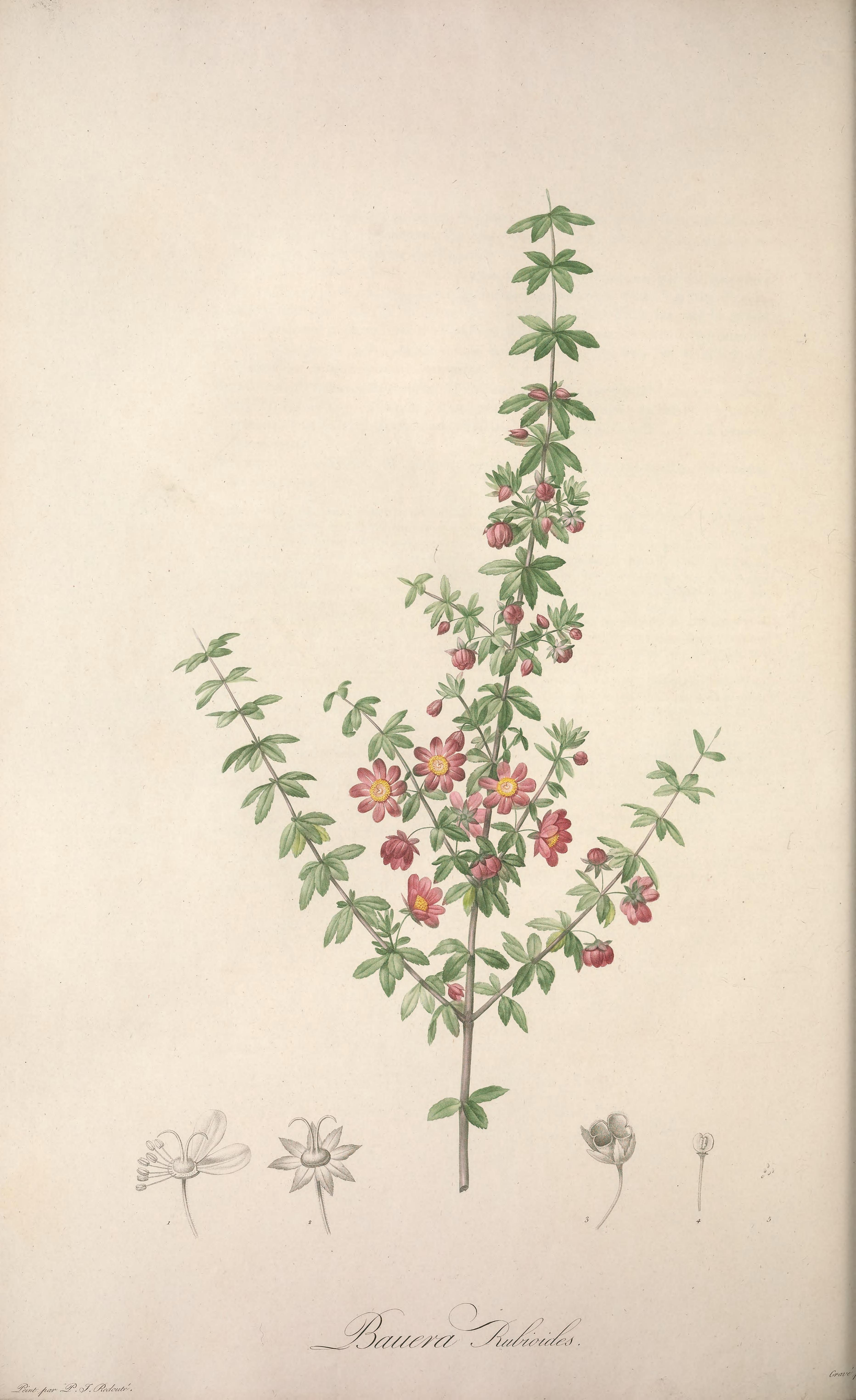 Bauera rubioides